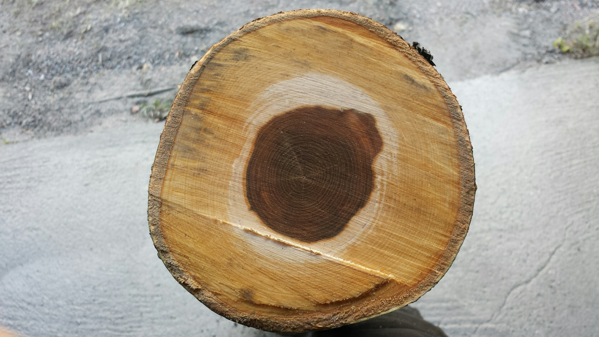 Freshly cross cut Sorbus aucuparia with heart-wood from the island of Engeloeya in Norway